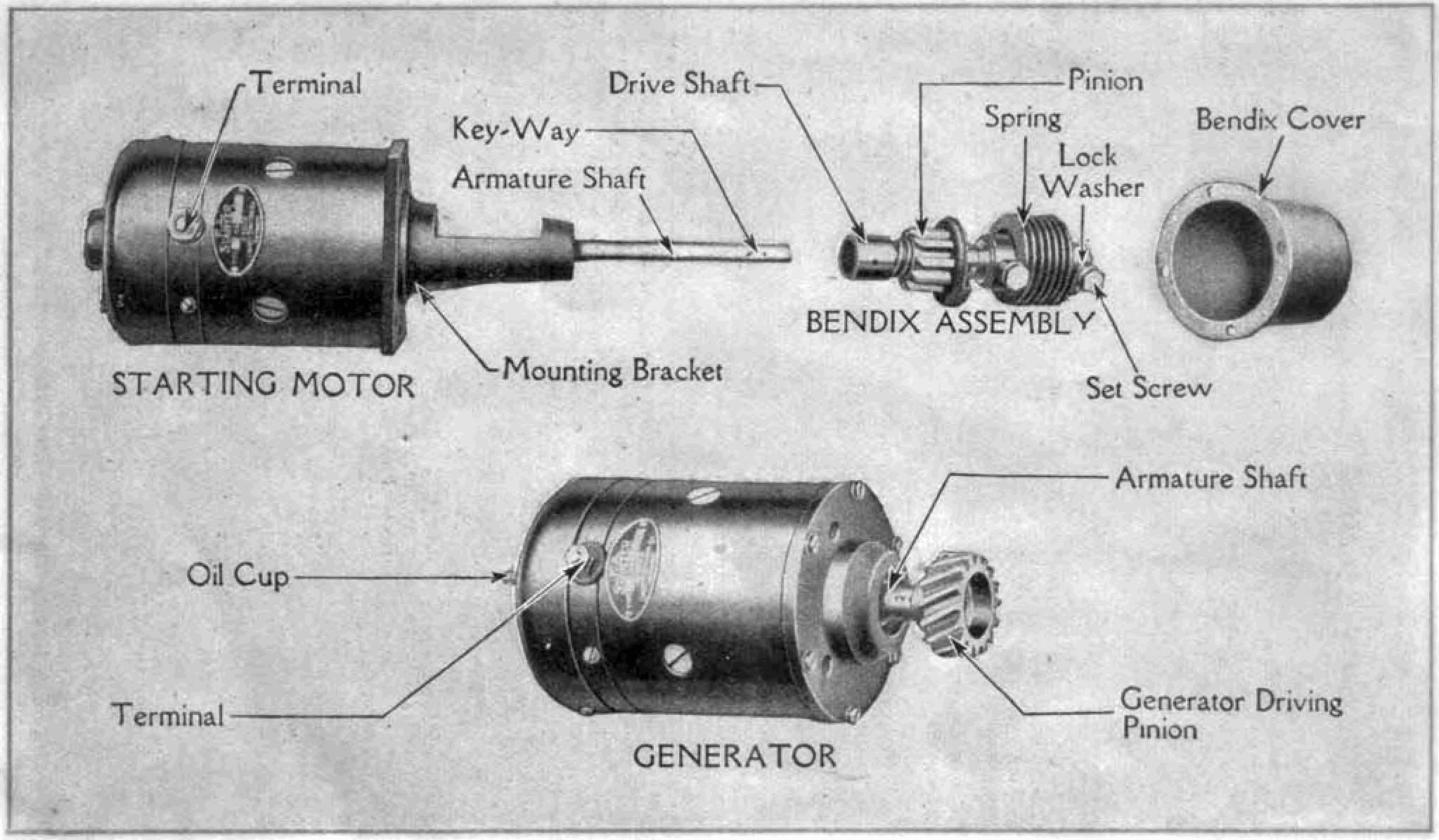 starter and generator units